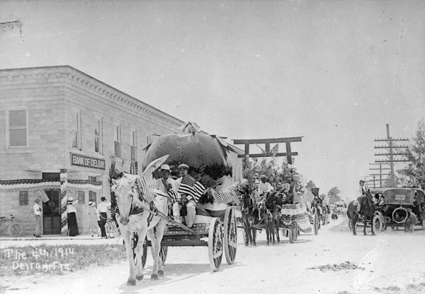 Persistent URL: Local call number: RC08812 Title: July 4th parade: Delray Beach, Florida Date: July 4, 1914 Physical descrip: 1 photoprint - b&w - 8 x 10 in. Series Title: Reference Collection Repository: State Library and Archives of Florida, 500 S. Bronough St., Tallahassee, FL 32399-0250 USA. Contact: 850.245.6700.